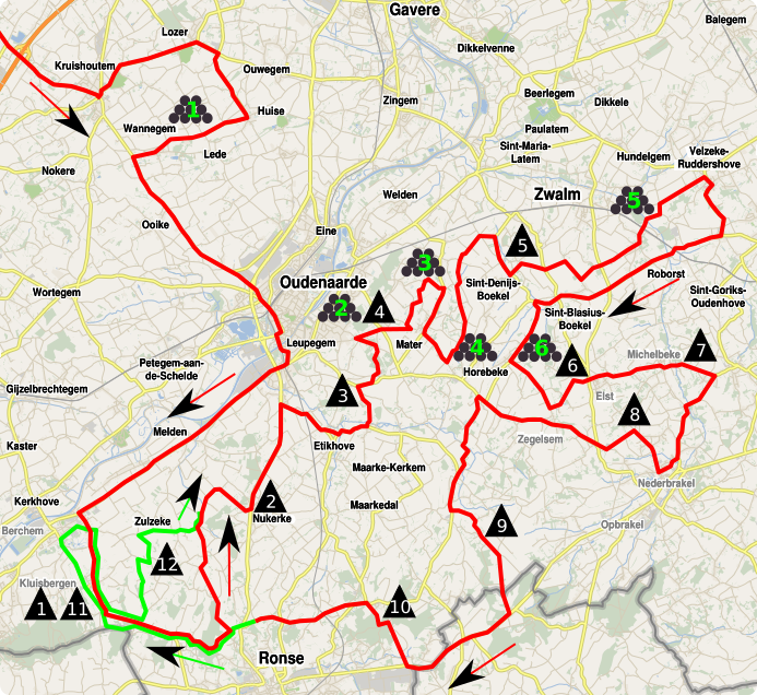 Map of the first lap of the Ronde van Vlaanderen 2016 men.